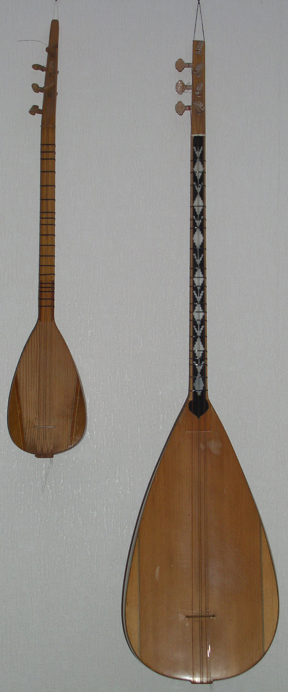 Two instruments from the saz family own picture